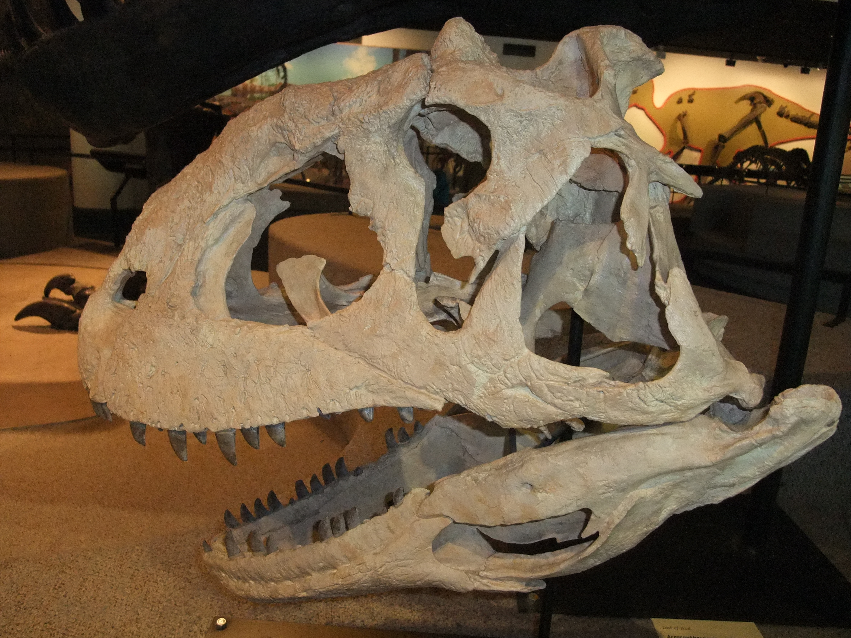 A photograph of a cast from the skull of Majungatholus atopus. In the background, the Hadrosaurus foulkii skeleton can be seen.